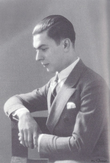 Image of author Andreas Embiricos taken in Lausanne in 1920.